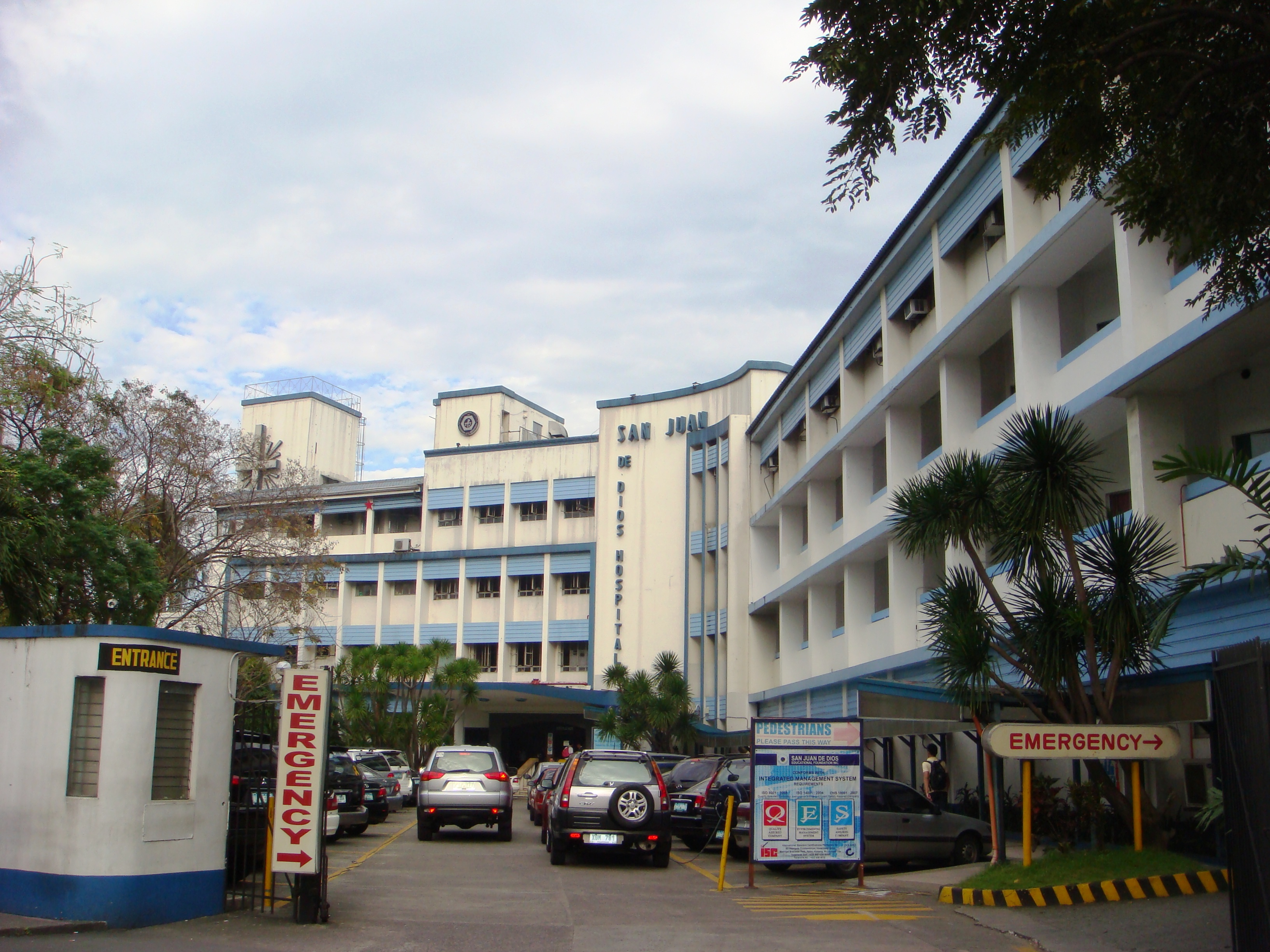 The 1578 San Juan de Dios Hospital (426 years building, now San Juan de Dios Educational Foundation, Incorporated at 2772 Roxas Boulevard, Pasay City, Philippines)[1], the oldest in Philippines, was founded on 1579 by a lay brother, Fray Juan Clemente. Destroyed 4 times, it was finally rebuilt in 1952.